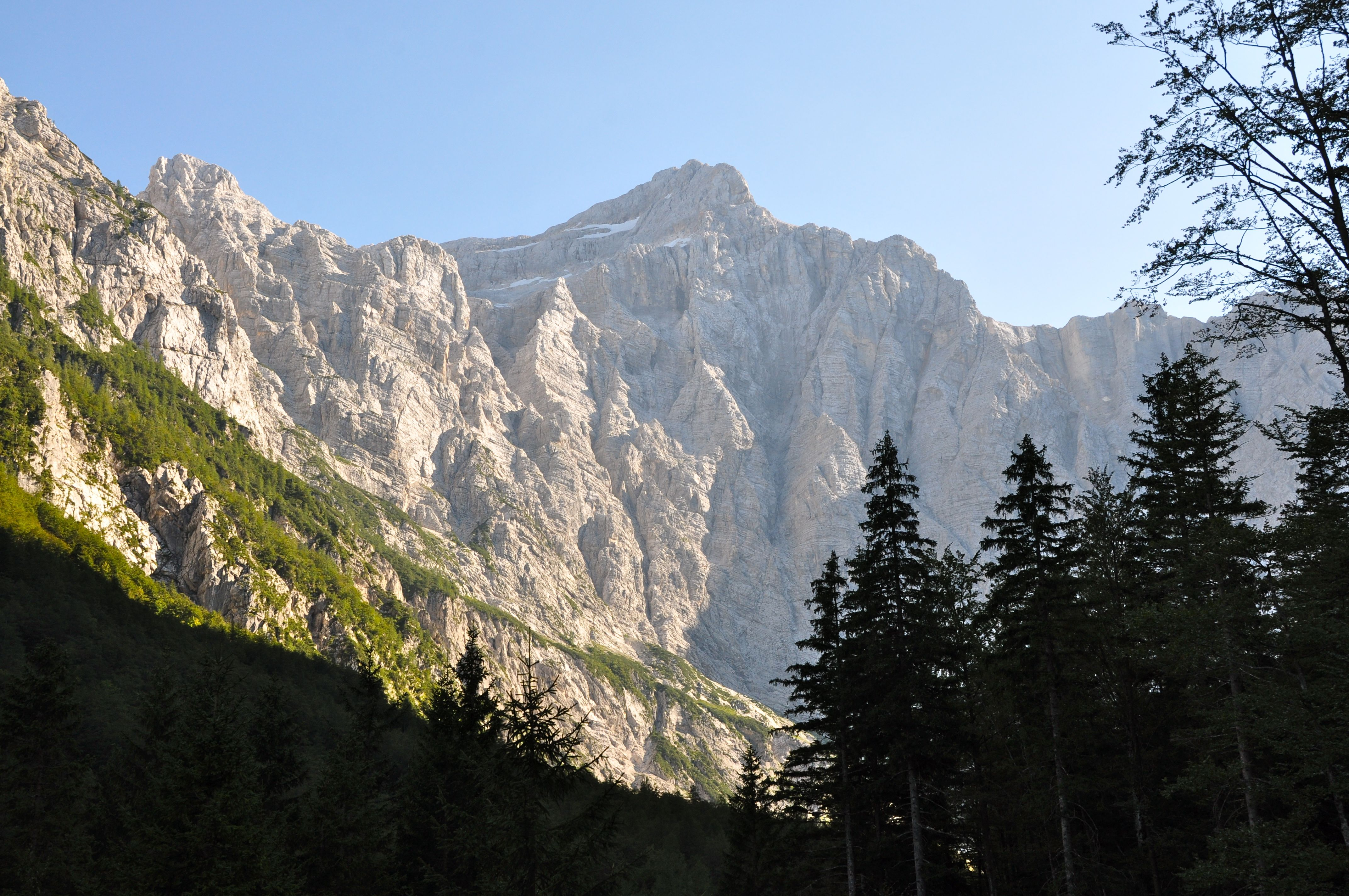 Triglav north wall, Vrata valley, Mojstrana, municipality Kranjska Gora, Slovenia